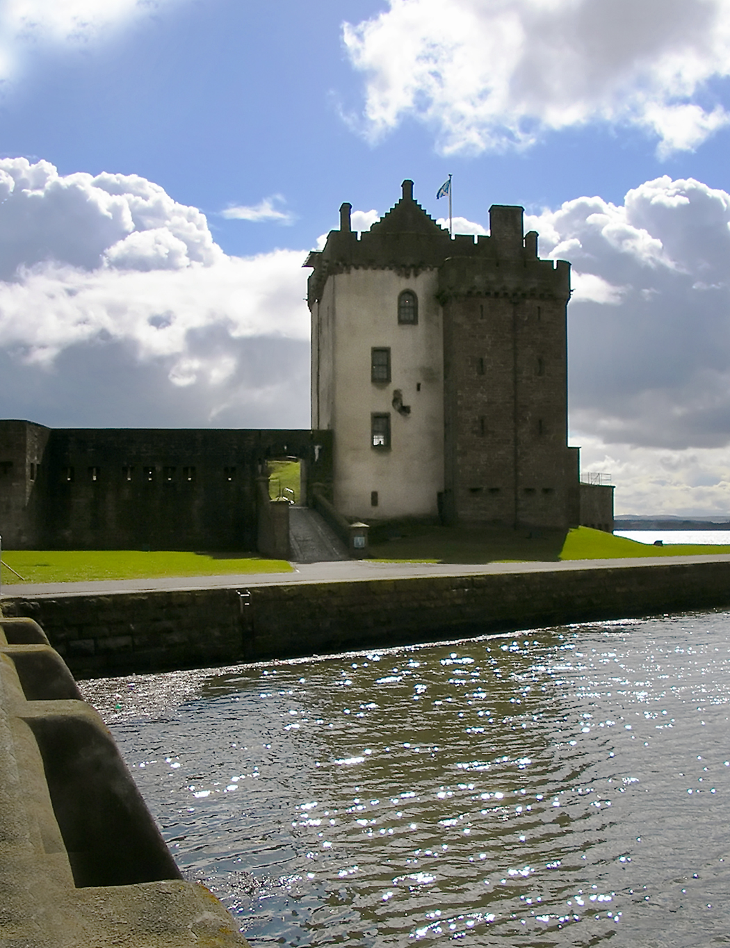 Broughty Ferry, Dundee, Scotland